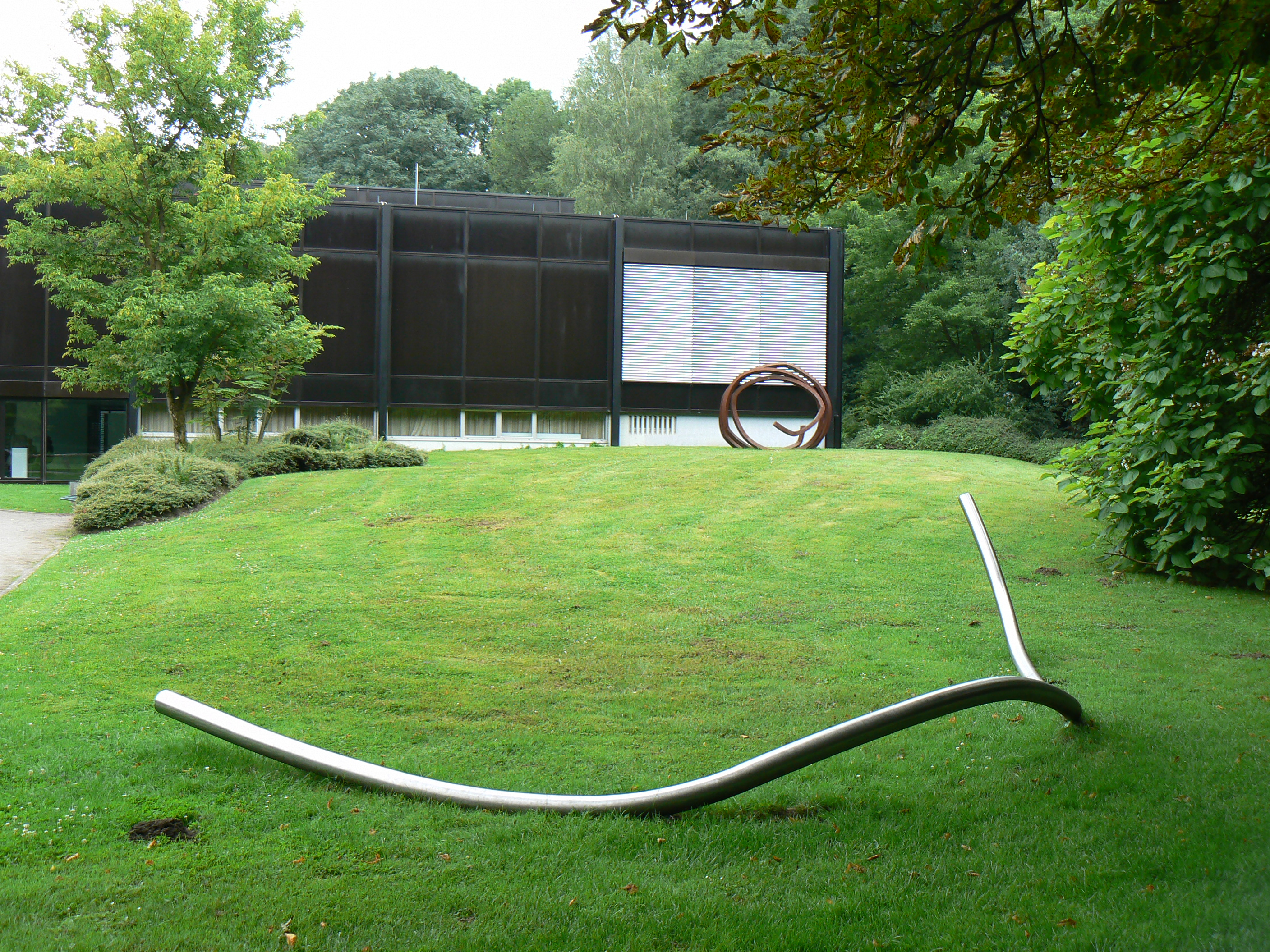 Sculpture in sculpturepark Quadrat Bottrop (Moderne Galerie) in Bottrop/Germany. Sculptor: Norbert Kricke Titel:Raumplastik Grosse Kurve I/1980 (1980)